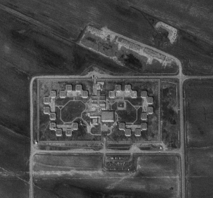 USGS orthophoto of Unit 29 at Mississippi State Penitentiary in Mississippi, United States